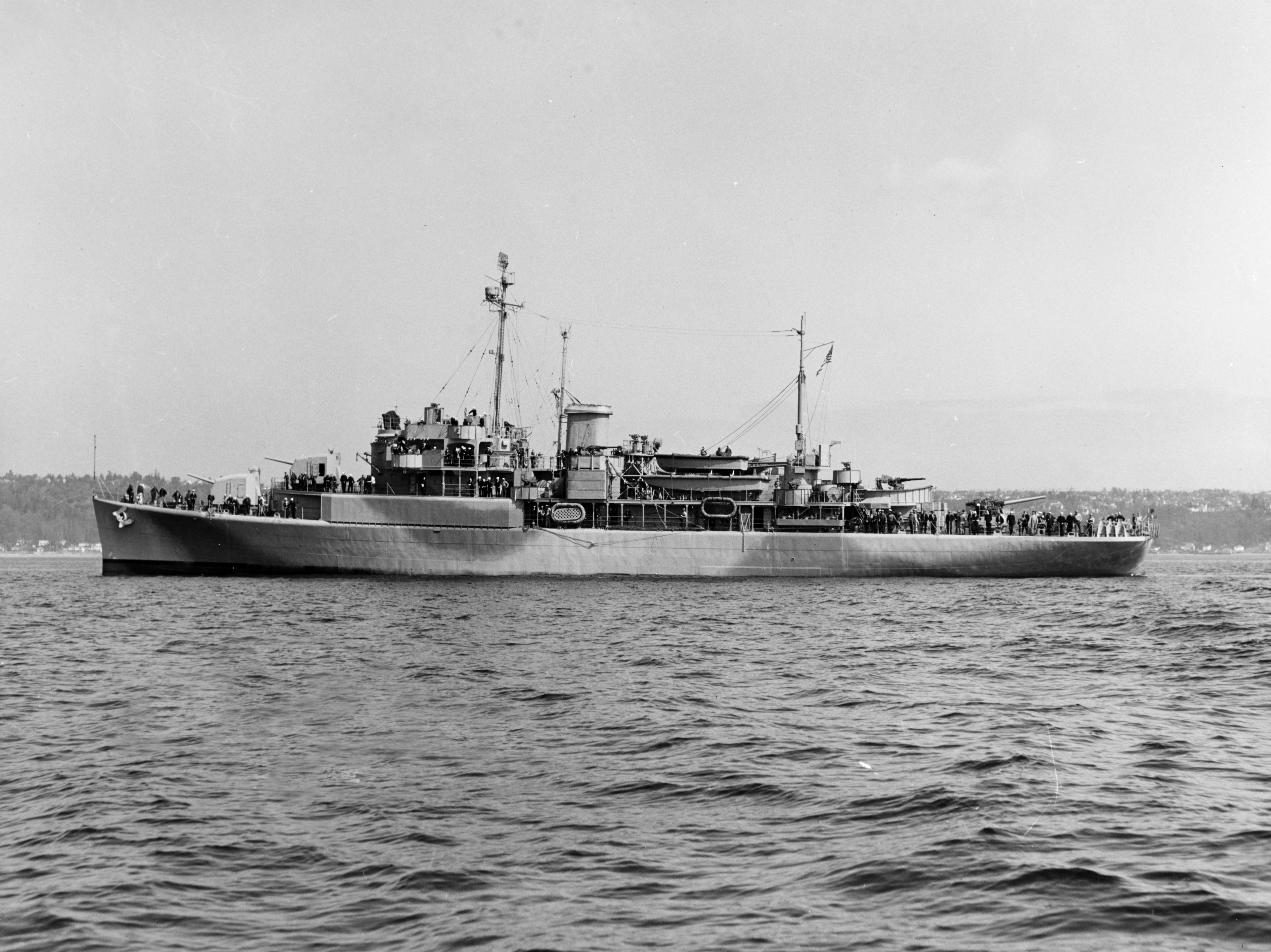 The U.S. Navy seaplane tender USS Yakutat (AVP-32) off Seattle, Washington (USA), on 30 March 1944, one day before she was commissioned. She is painted in Camouflage Measure 32, Design 5D.